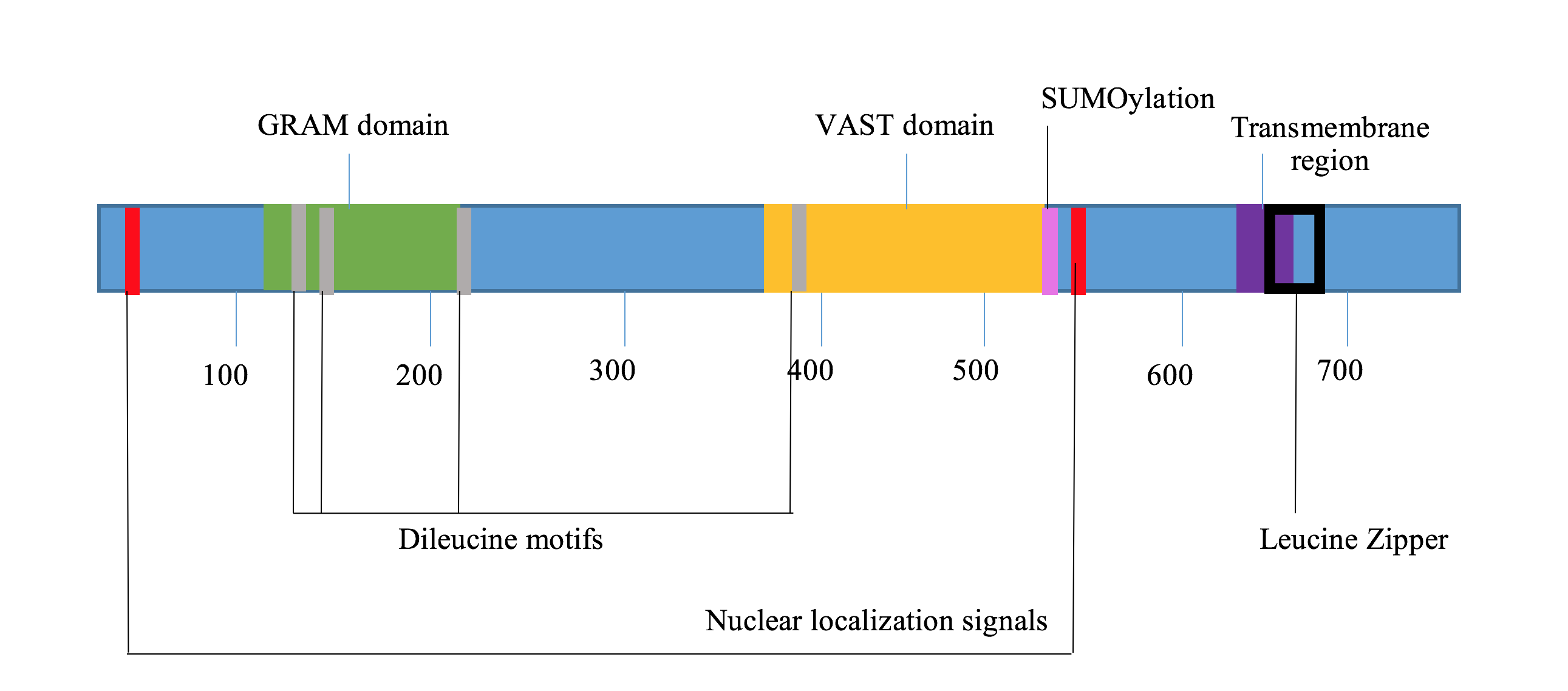 GRAMD1B